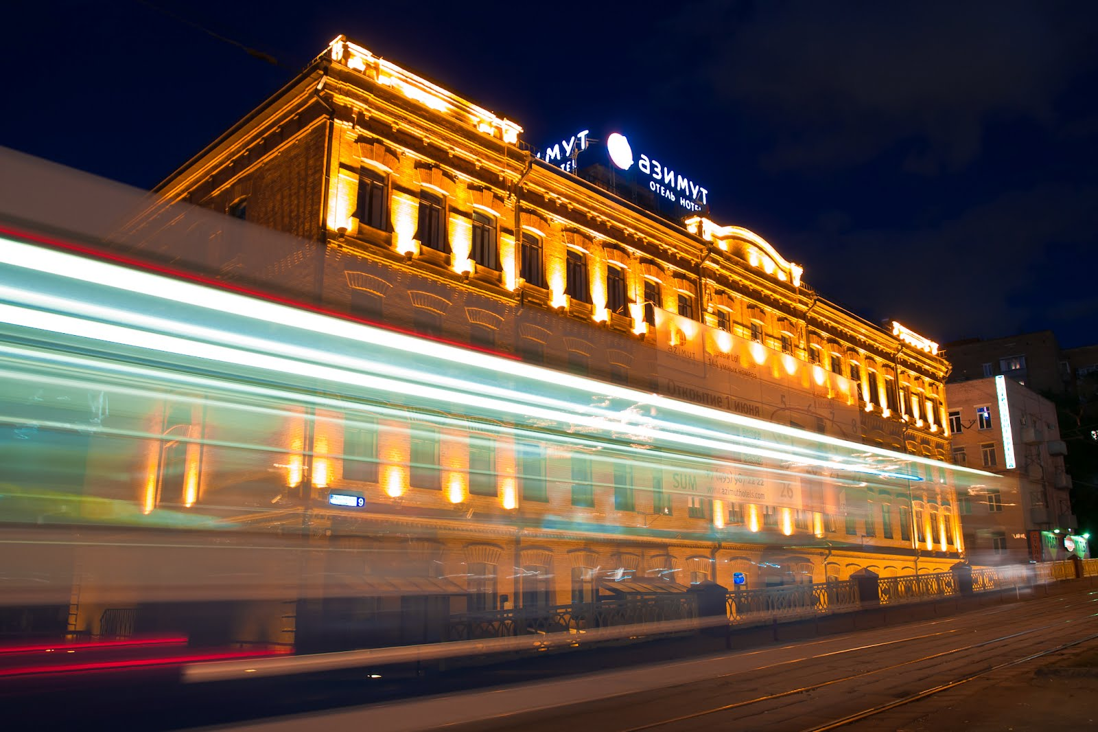 Azimut Moscow Tulskaya Hotel. Azimut Hotels chains